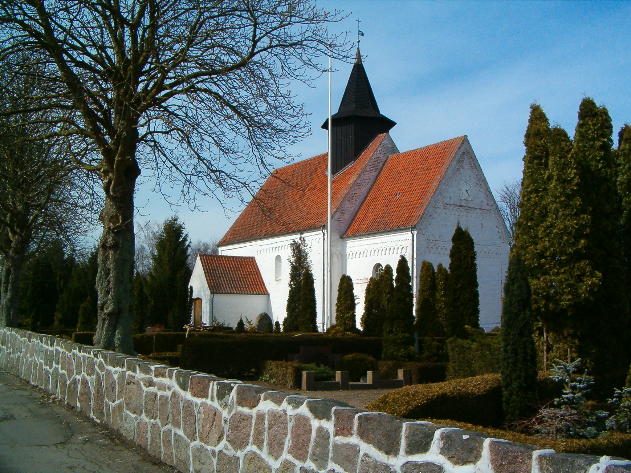 Church of Øster Ulslev, Denmark